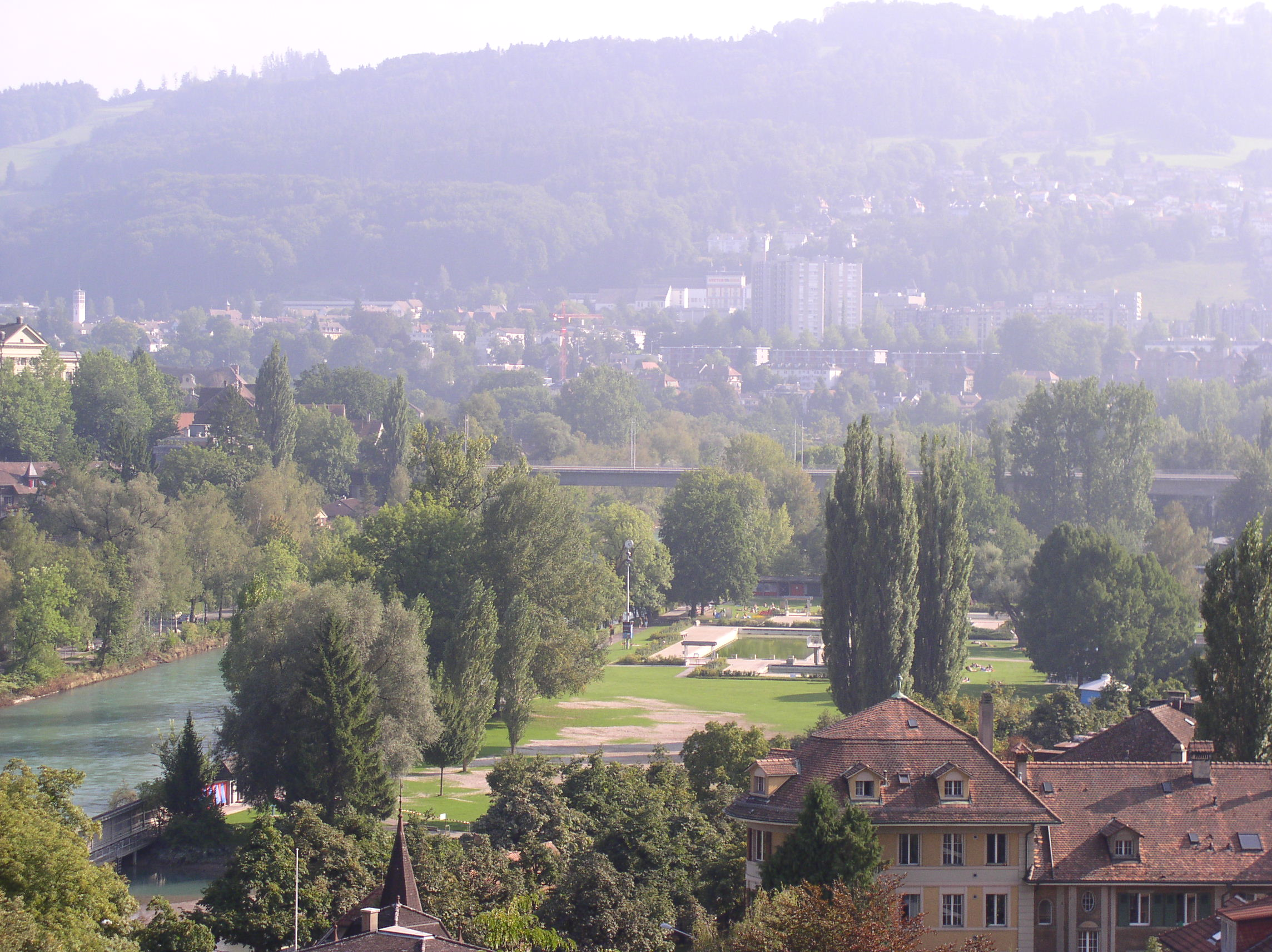 Description: Marzilibad in Bern Source: photo taken by me, September 2005 Photographer: Baikonur